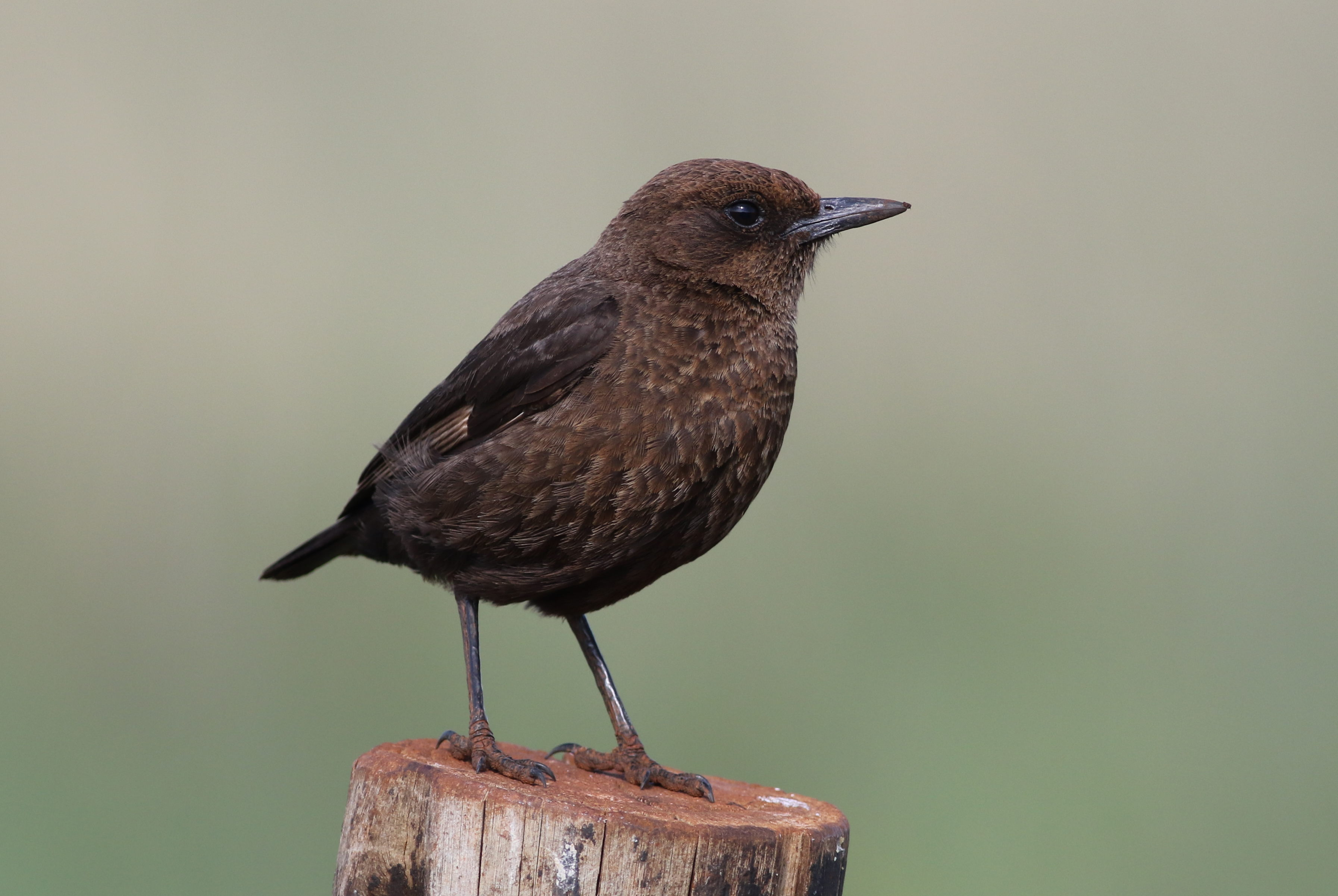 Ant-eating Chat (or Southern Anteater-chat), Myrmecocichla formicivora, at Rietvlei Nature Reserve, Gauteng, South Africa